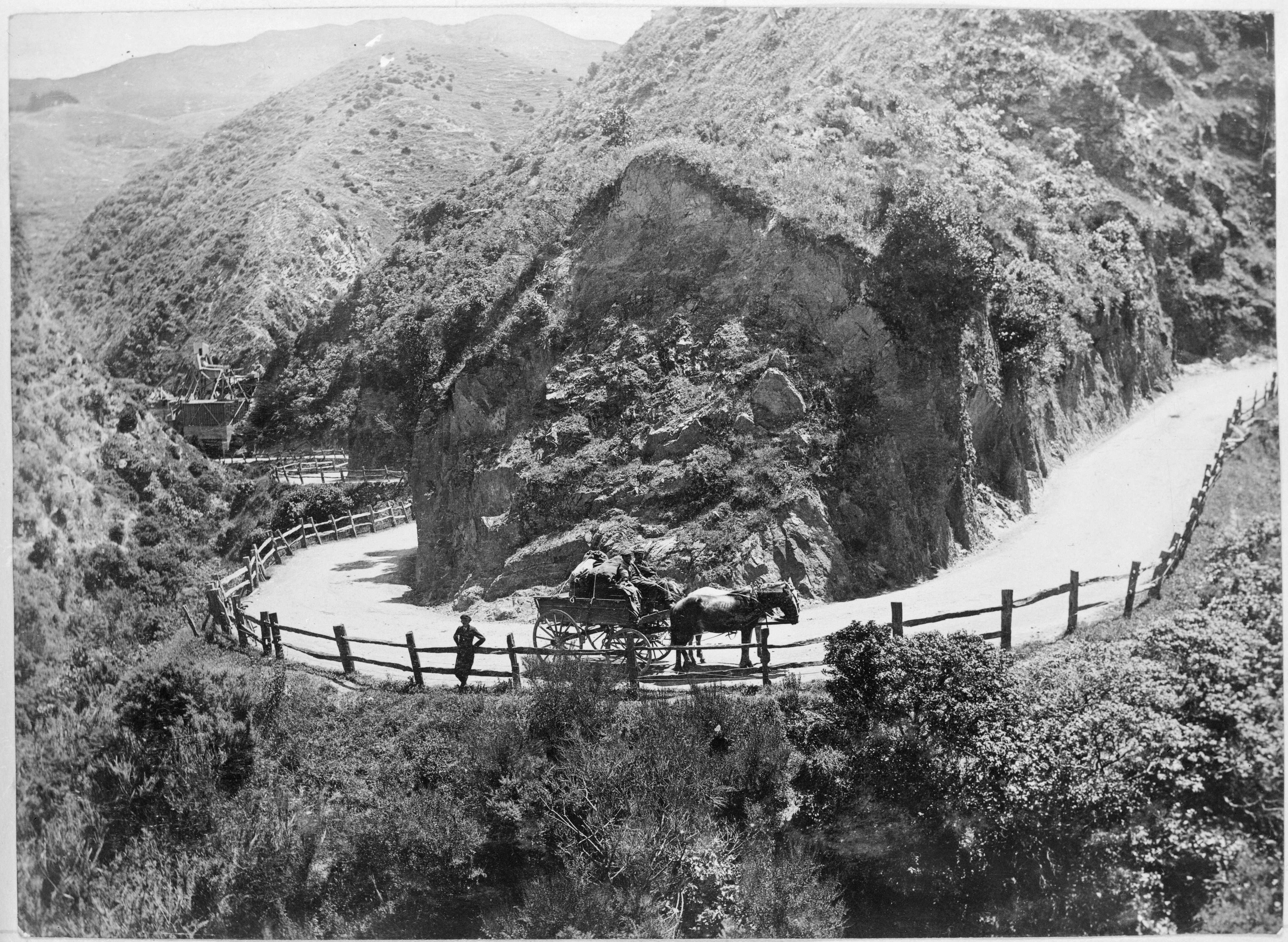 View looking down on the Ngauranga Gorge Road, with many bends, and fencing on the lower side. There is a laden cart pulled by two horses, centre foreground, with two men sitting on the cart, and a young man standing at the edge of the road. Photograph taken by Albert Percy Godber, 22nd January 1912. This image is a film negative copy taken from the print in Godber Album Vol 110, p 161 (PA1-q-103).